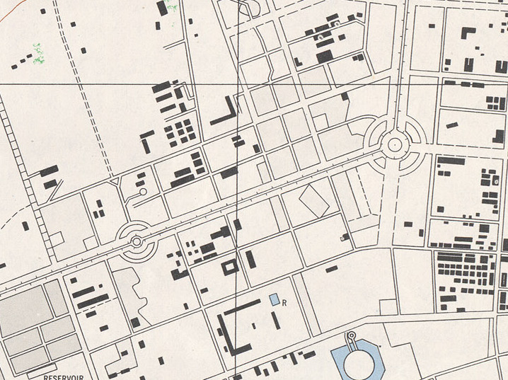 Two new roundabouts in Takao